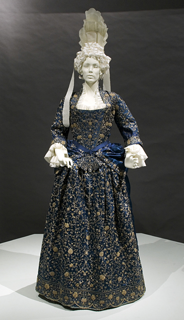 Italy, circa 1700 Costumes; principal attire (entire body) Gold and silver metallic thread embroidery on silk satin Costume Council Fund (M.88.39a-c) Costume and Textiles